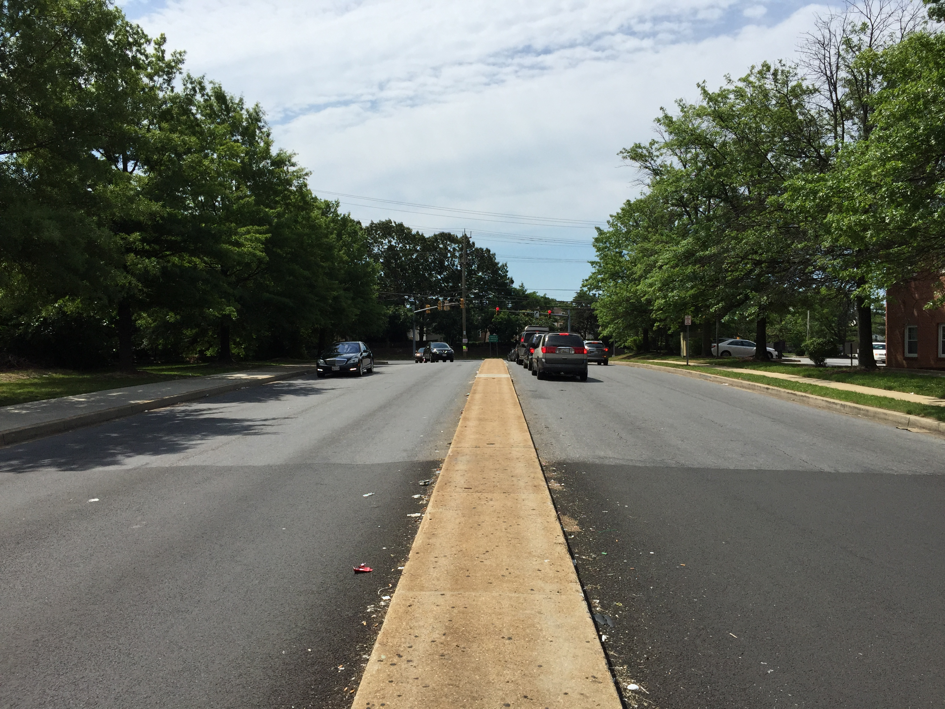 View south along Maryland State Route 975 (John Hanson Lane) at Maryland State Route 414 (Oxon Hill Road) in Oxon Hill, Prince George's County, Maryland